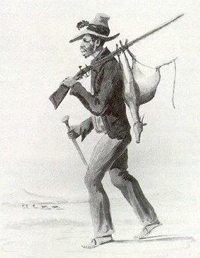 Old colonial painting of a Khoi hunter. J. White.